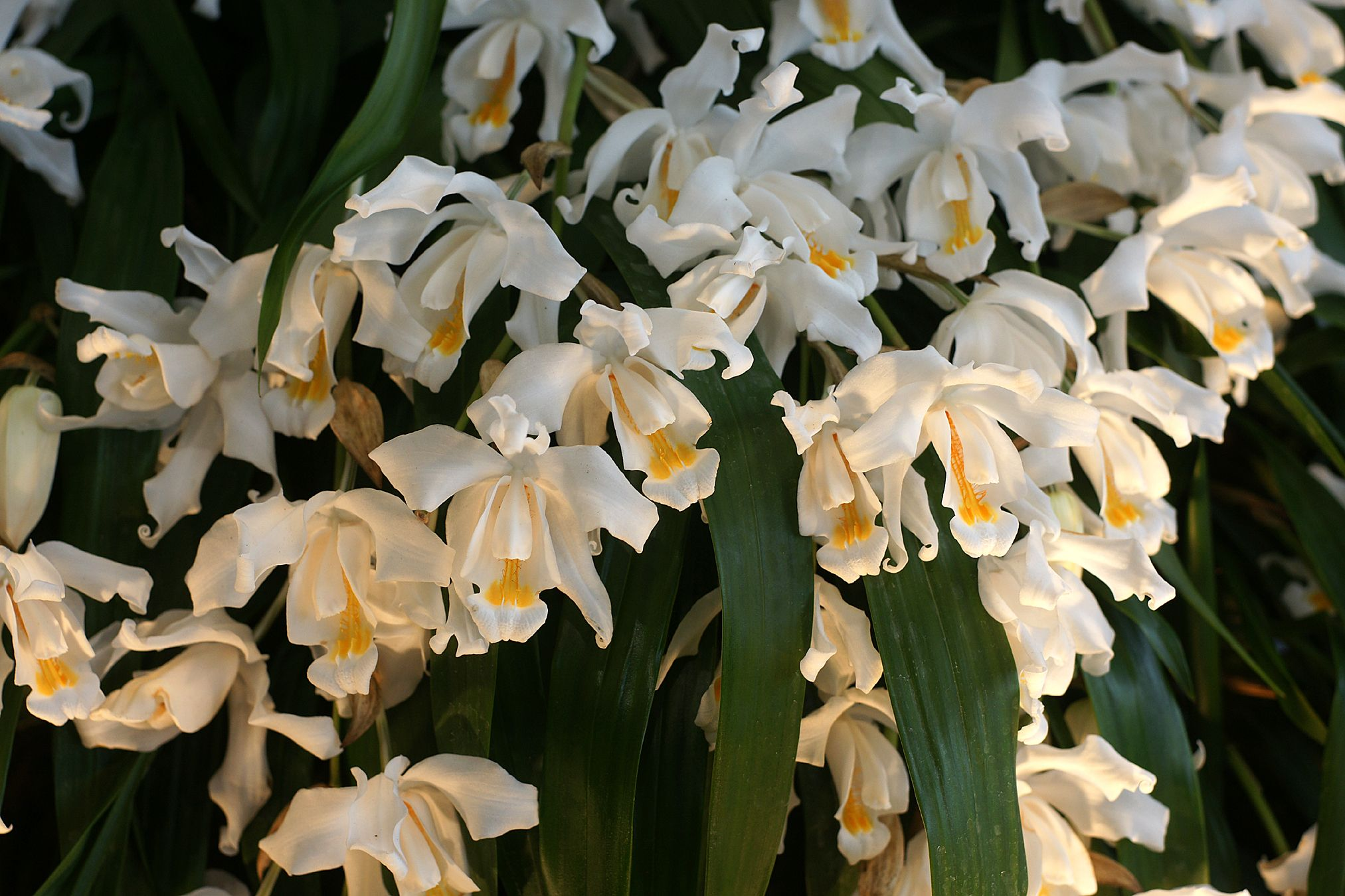 Coelogyne cristata - flower